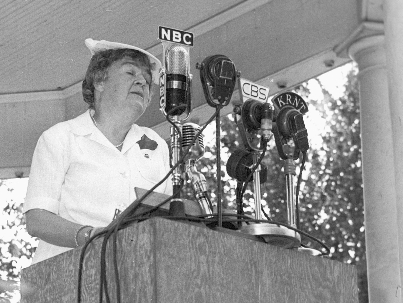 From the back of the photograph: Congresswoman Edith Nourse Rogers, who presented the the WAAC Bill to Congress in December 1941, speaks to the first Officer Candidate Class at graduation exercises, August 29, 1942, at the First WAAC Training Center, Fort Des Moines, Iowa.